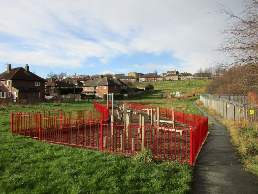 Play area and footpath to Rawthorpe